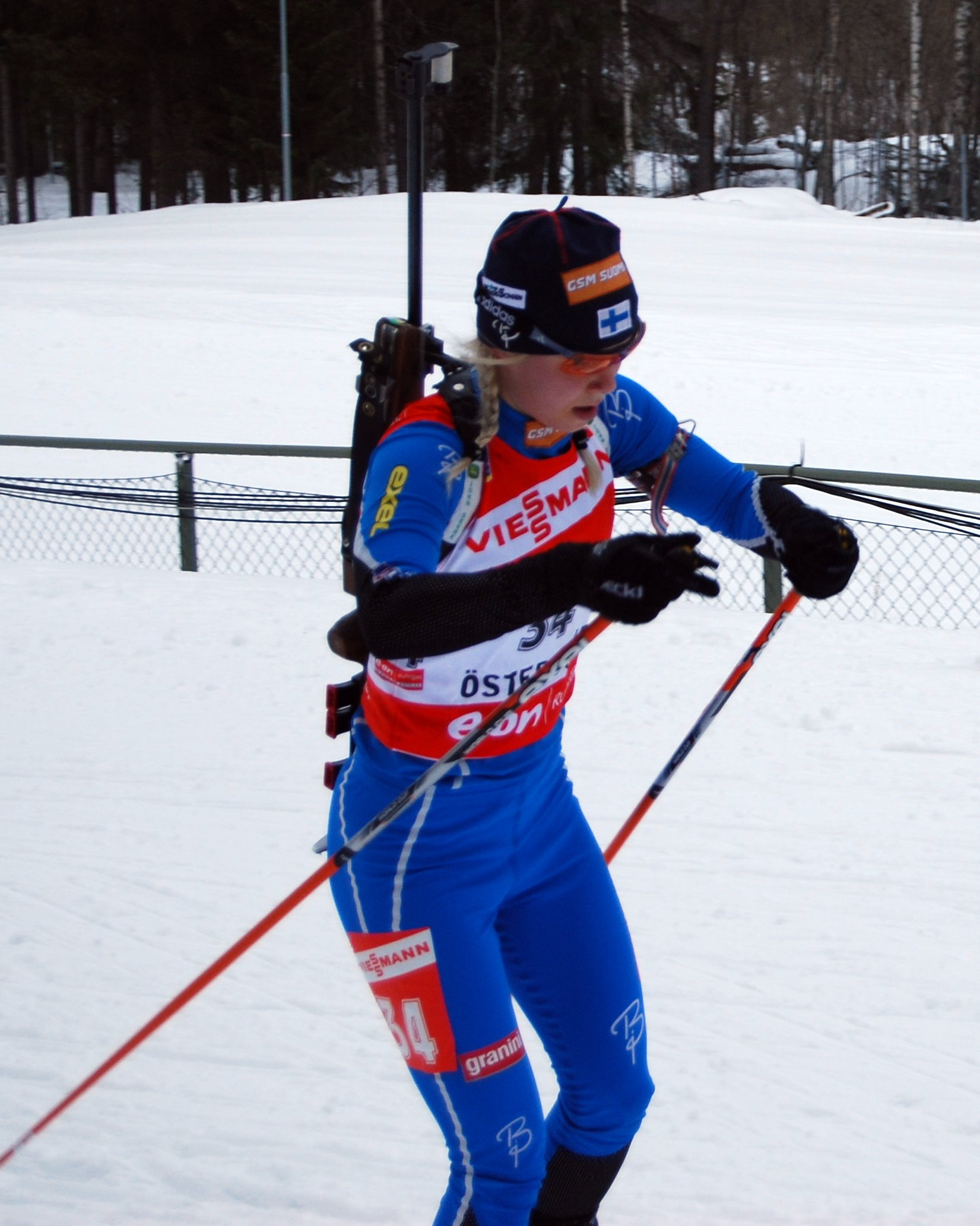 Finnish biathlete Mari Laukkanen during the World Championships in Östersund 2008.